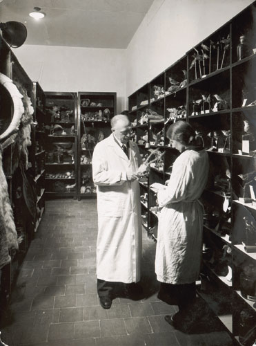 Israel Aharoni, holding a skull of roe deer (Capreolus capreolus), standing next to his daughter and assistant Bat-Sheva in the corridors of the Hebrew University of Jerusalem's zoological collection, Mount Scopus